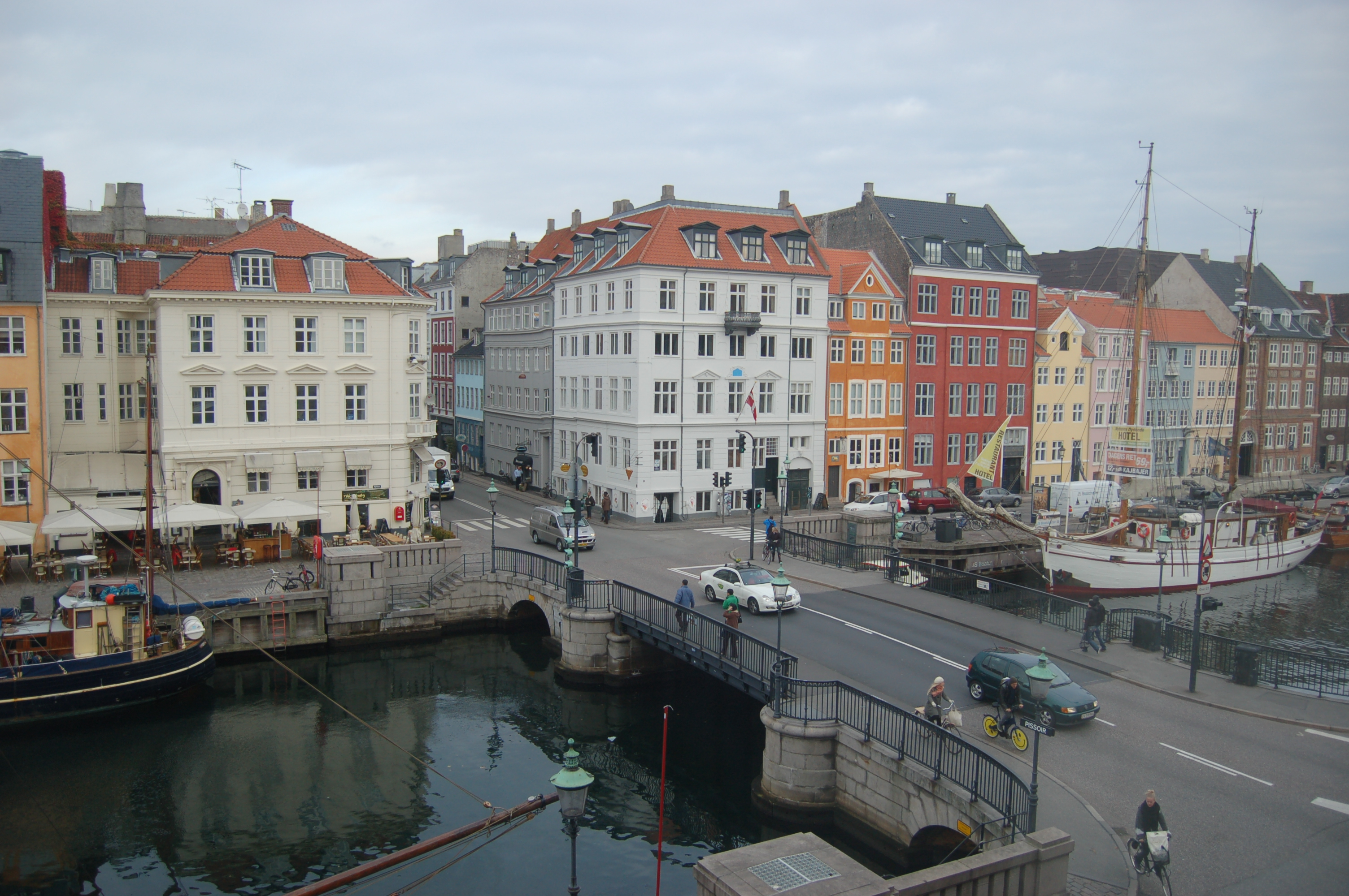 The Nyhavn Bridge seen from Hotel Bethel in Copenhagen, Denmark